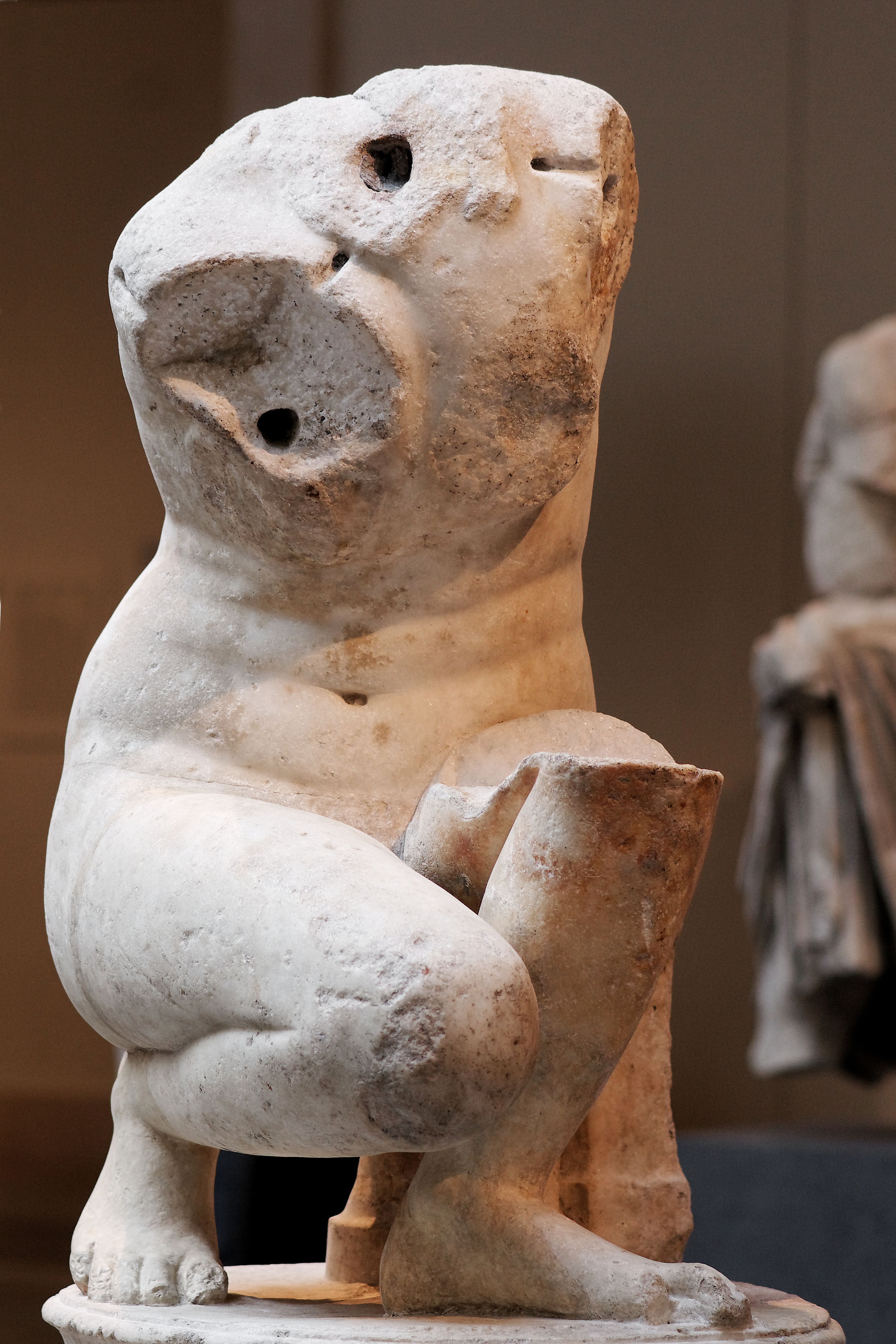 Statue of the Crounching Aphrodite type. Roman copy of the Imperial period after a Greek original of the 3rd century BC; both ankles and most of the feet are modern restorations.